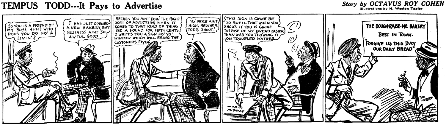 Installment of the short-lived comic strip Tempus Todd, the first comic strip in a mainstream newspaper to portray black characters as real people. Here, Tempus and a bakery owner talk about advertising. The text in this image should be transcribed and included in the description on this page. See also Transcription . The Google OCR tool may be of use in transcribing images.